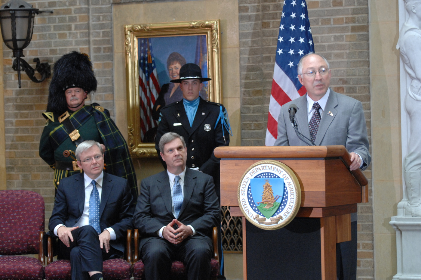 United States Secretary of the Interior Ken Salazar joined United States Secretary of Agriculture Tom Vilsack at a ceremony Thursday where Australian Prime Minister Kevin Rudd thanked United States wildland firefighters for their assistance during recent devastating fires in the State of Victoria, Australia.